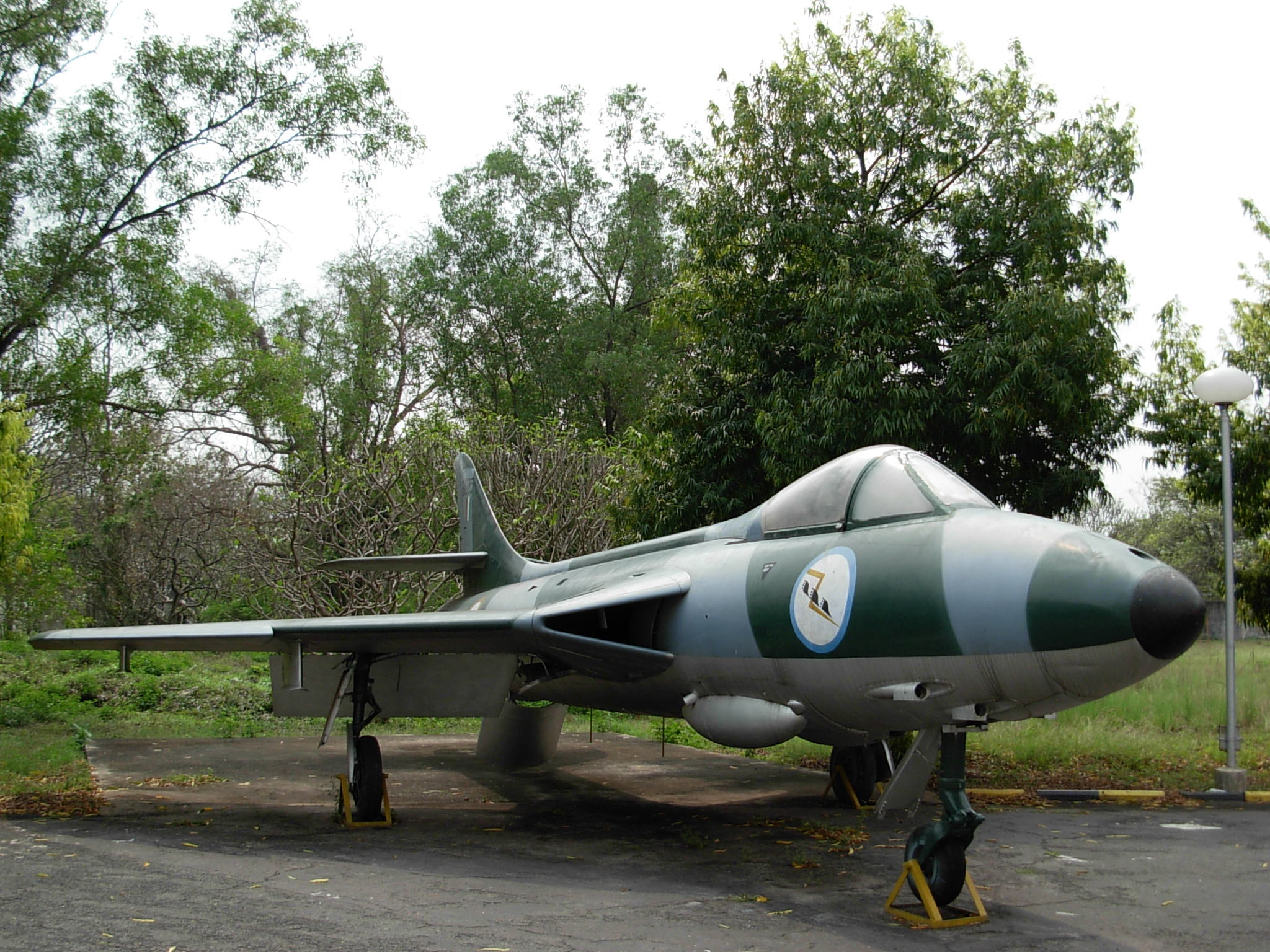 A Hunter Plane as an outdoor exhibit of the Nehru Museum